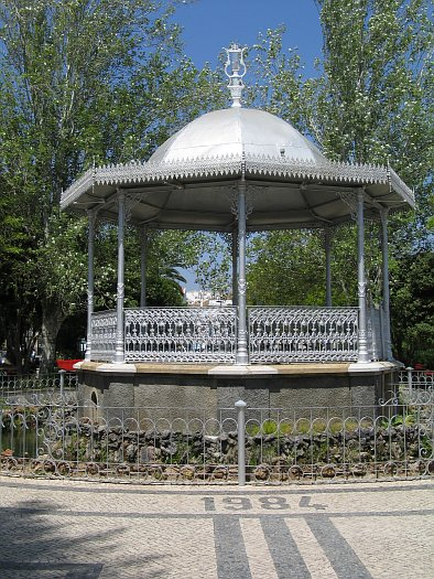 The band stand located in the Jardim Público de Tavira in the town of Tavira, Algarve, Portugal.